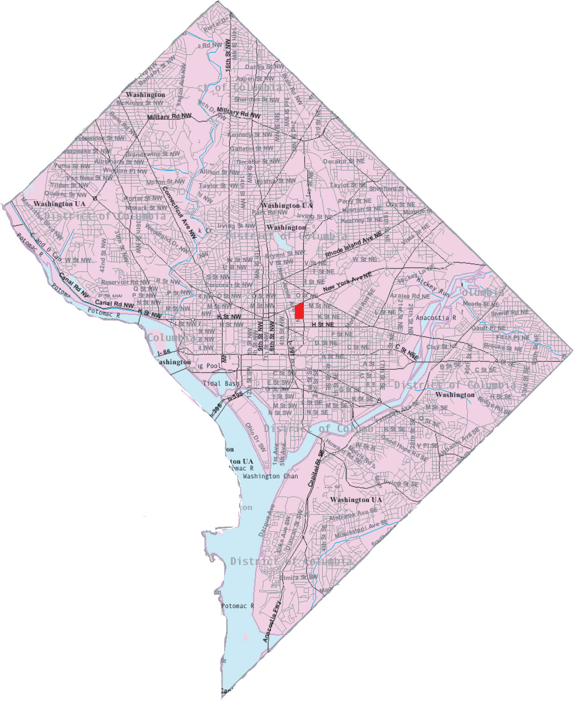 This image is a modified version of a self-generated reference map from the U.S. Census Bureau's American Factfinder at by Wikipedia user Msclguru.